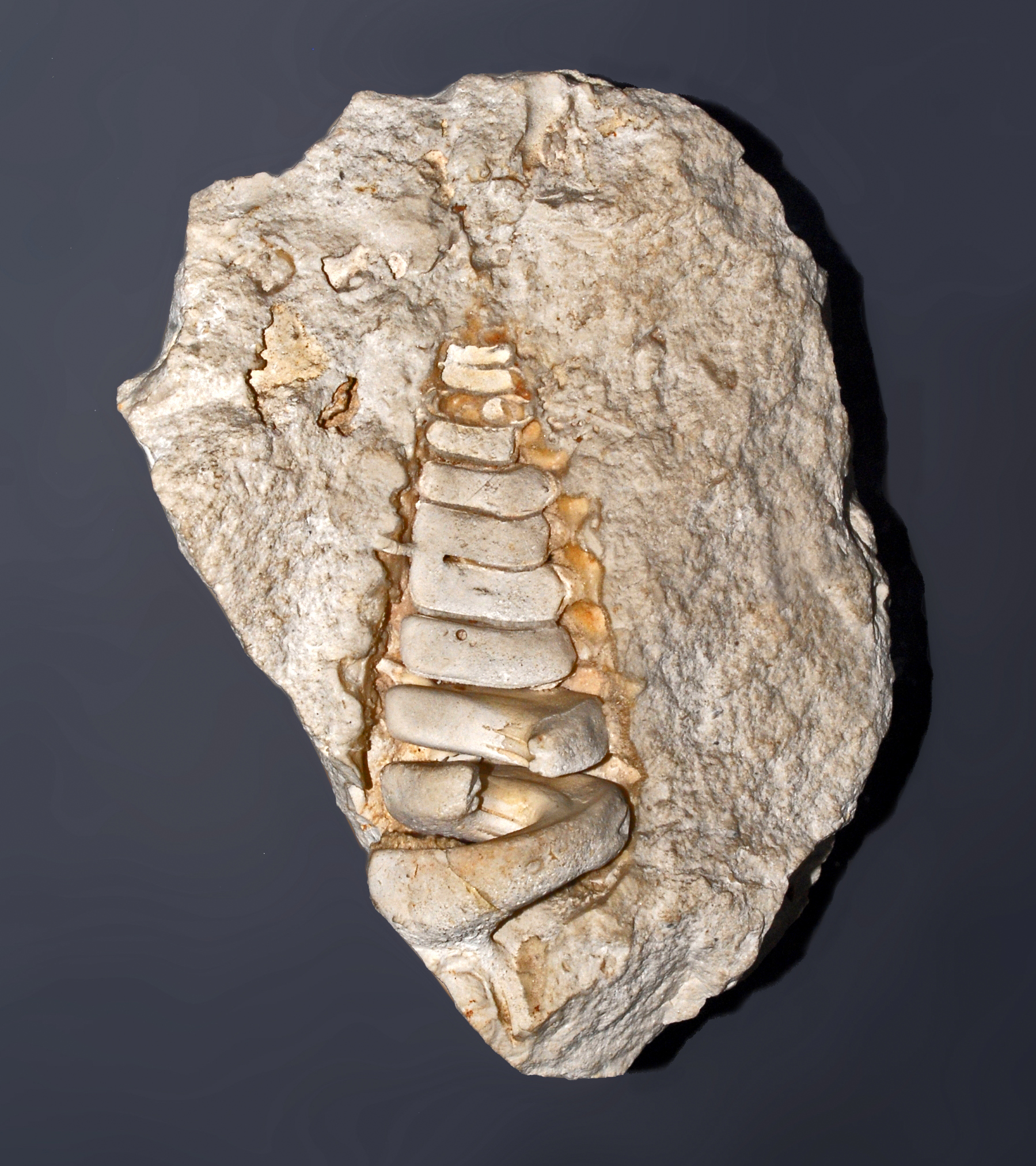 Fossil shell of Nerinea from Italy, on display at Museo Geologico G. Cappellini, Bologna